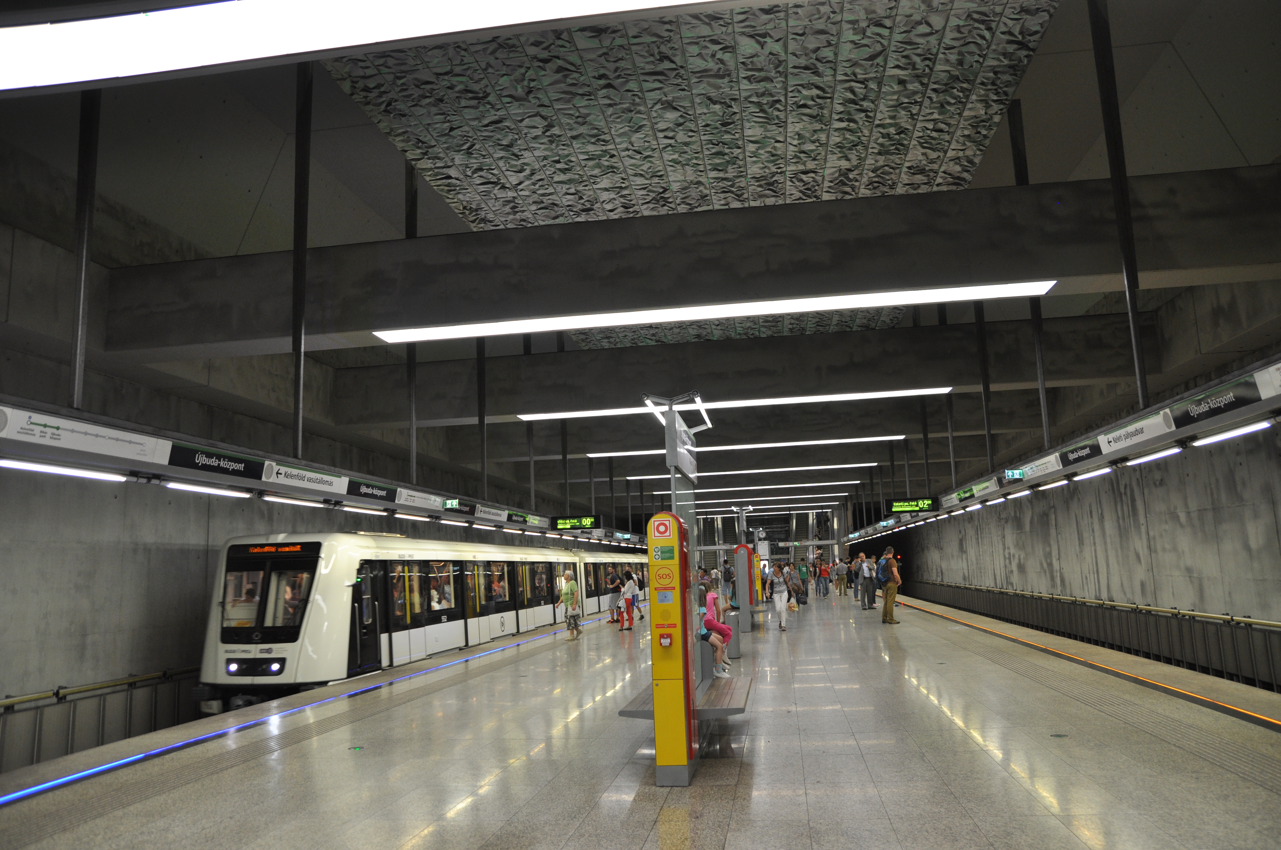 Budapest, metró 4, Újbuda-központ